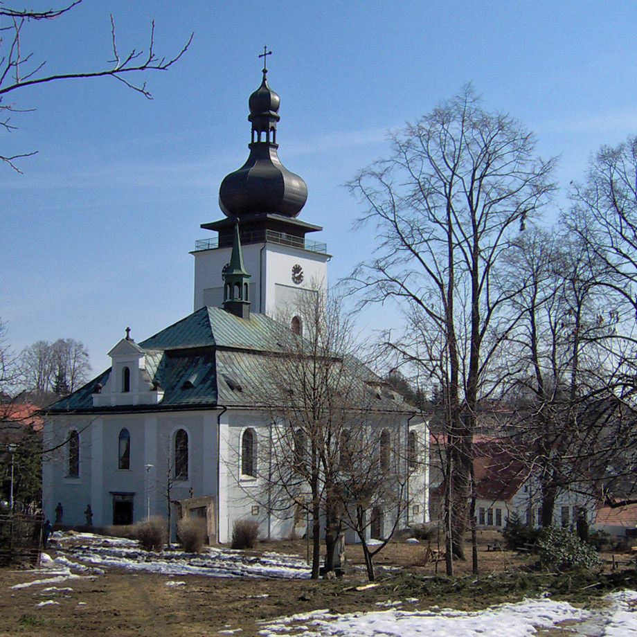 Church of the Visitation in Bozkov, Semily District, Czechia